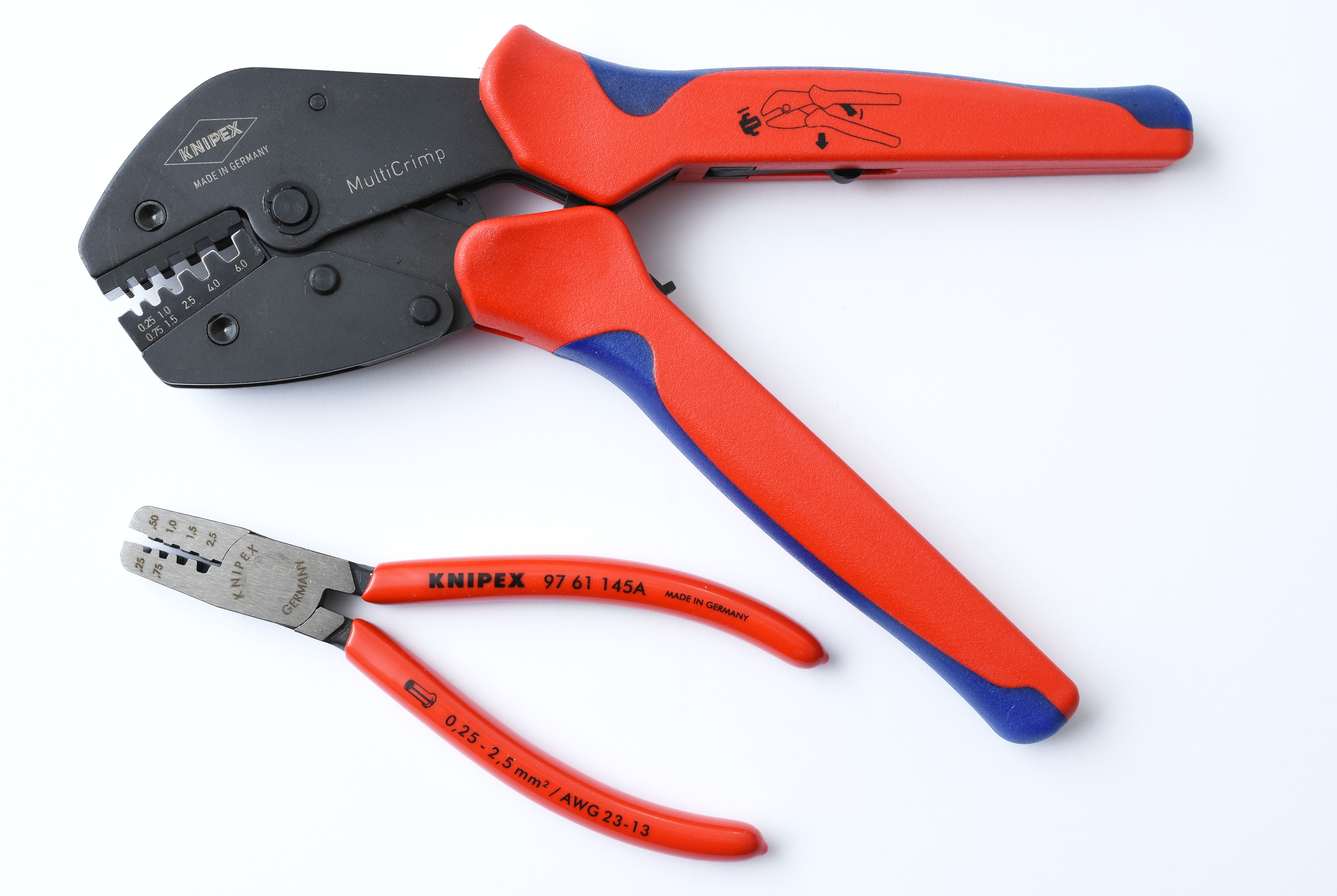 Crimping tools for wire ferrules of different sizes